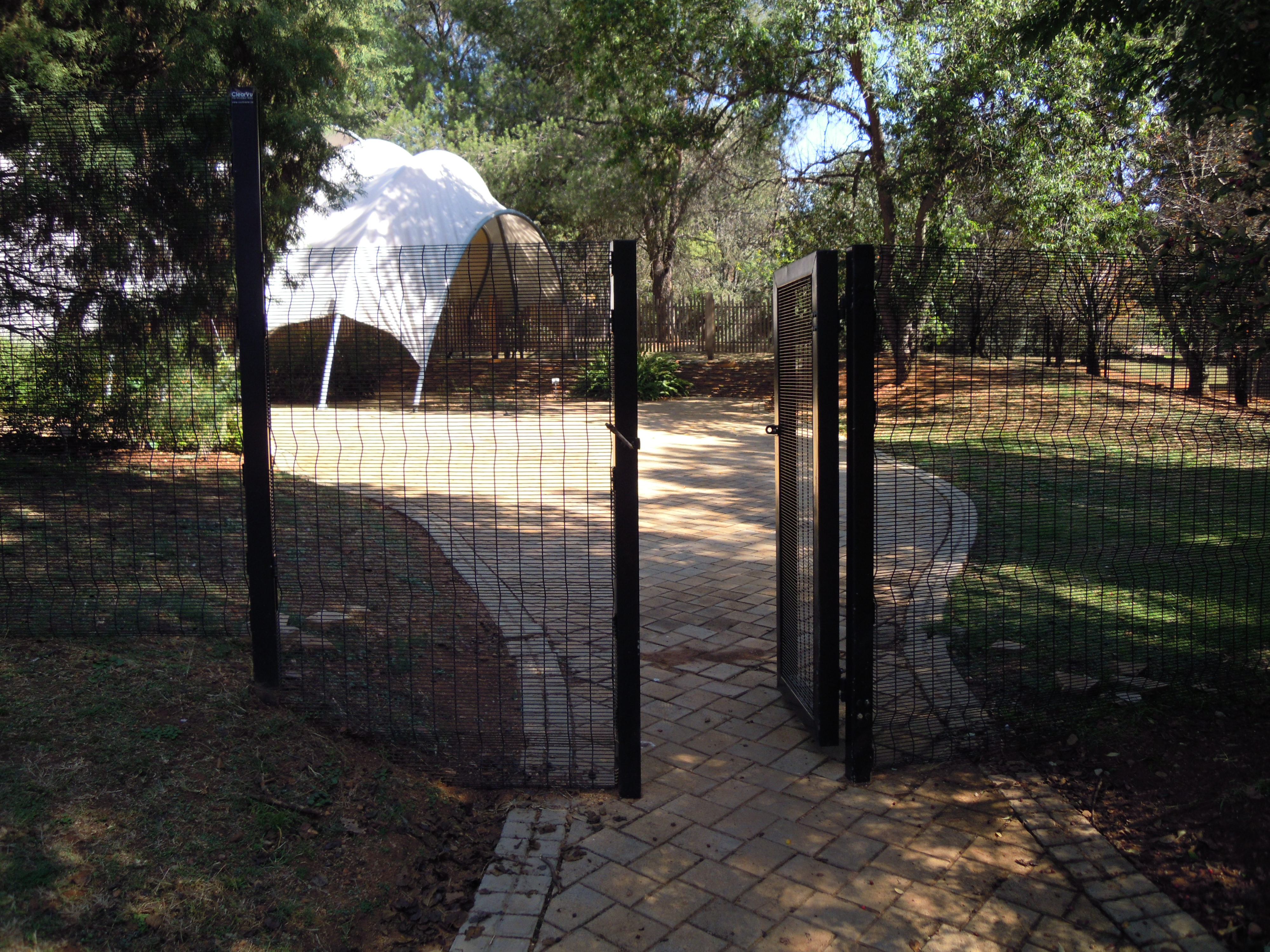 The proposed prehistoric garden in die Johannesburg Botanical Gardens